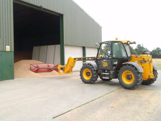 Grain pusher at work, near to Great Gidding, Cambridgeshire, Great Britain. The JCB Loadall 536 (x Agri) telehandler is a wonderful farm machine and this is just another job it does. The bulldozer type attachment along with the extending boom of the Loadall can push grain to heights of over 15 feet and beyond. The limiting factor is the angle of repose which is the natural angle that dried material will incline to.